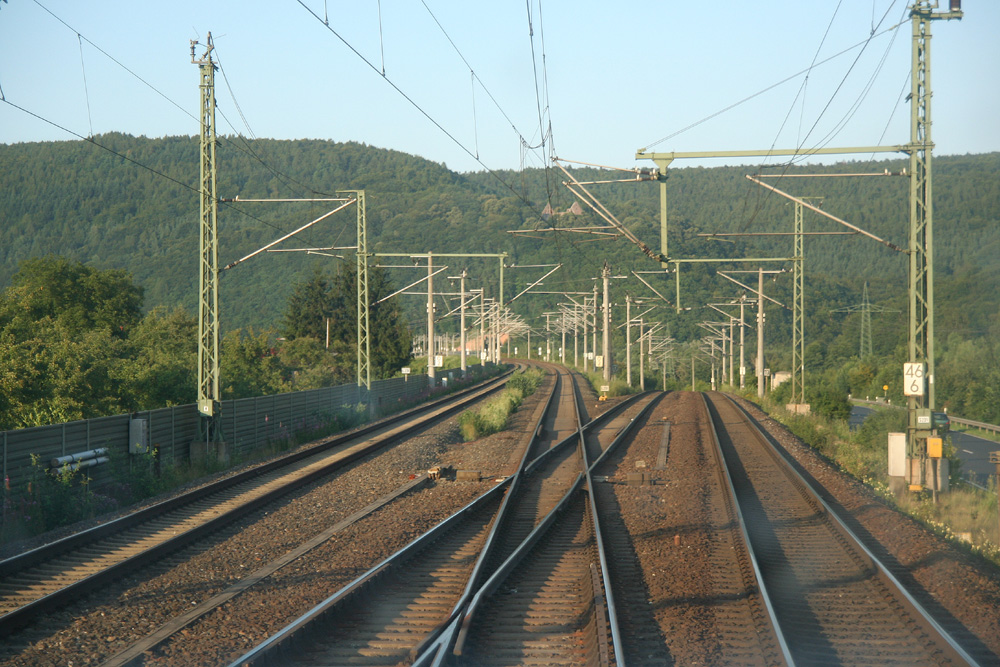 Nantenbach junction. To the right is the city of Gemünden (Main), to the left the Nantenbach curve, an 11-km curve that leads from Frankfurt to the Würzburg-Hannover high-speed railway line.